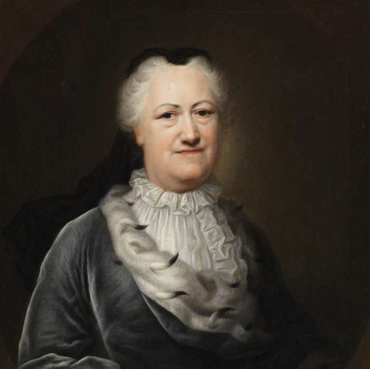 Elisabeth Sophie Mary of Schleswig-Holstein-Norburg, duchess of Brunswick-Wolfenbüttel.